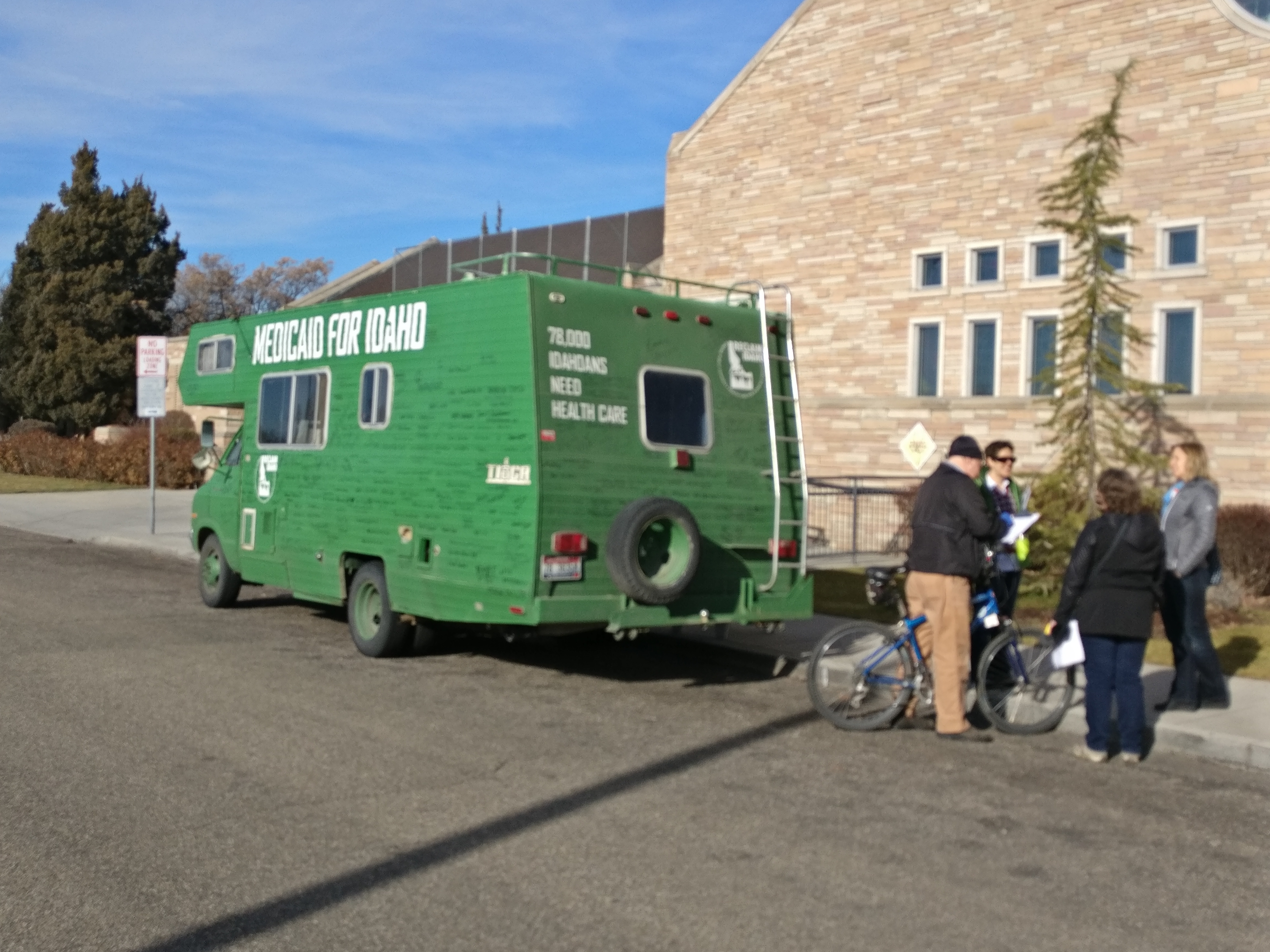 The green Medicaid For Idaho van is the vehicular symbol of Reclaim Idaho's campaign to put Medicaid expansion on the ballot; here it is parked besides the Methodist Cathedral of the Rockies which is hosting canvassing volunteers .